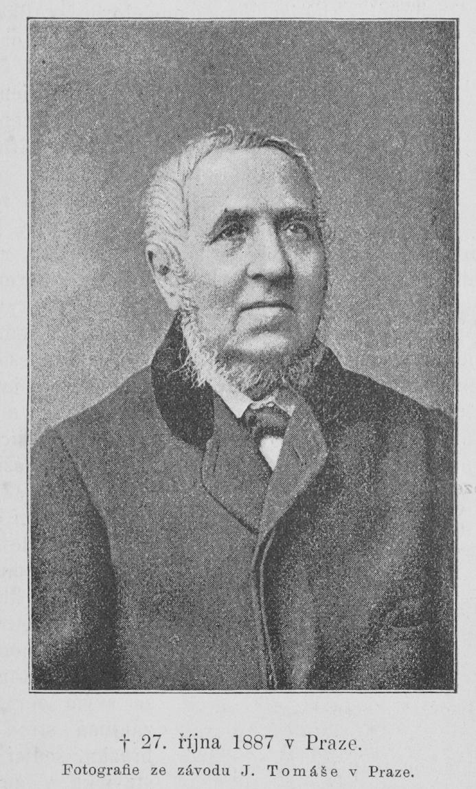 Portrait of Jiří Krouský (1812 - 1887), Czech teacher of stenography